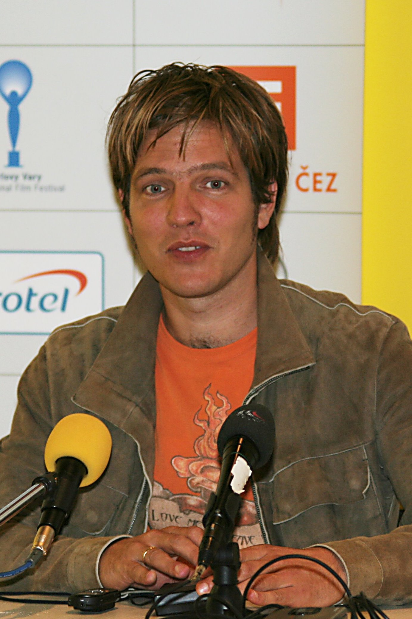 Thomas Vinterberg at 40th Karlovy Vary International Film Festival.